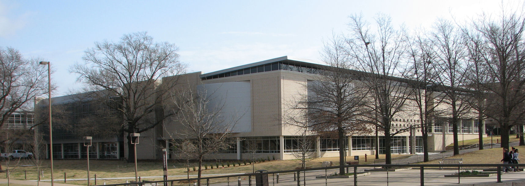 A full shot of the entire new addition to the University of Arkansas School of Law.